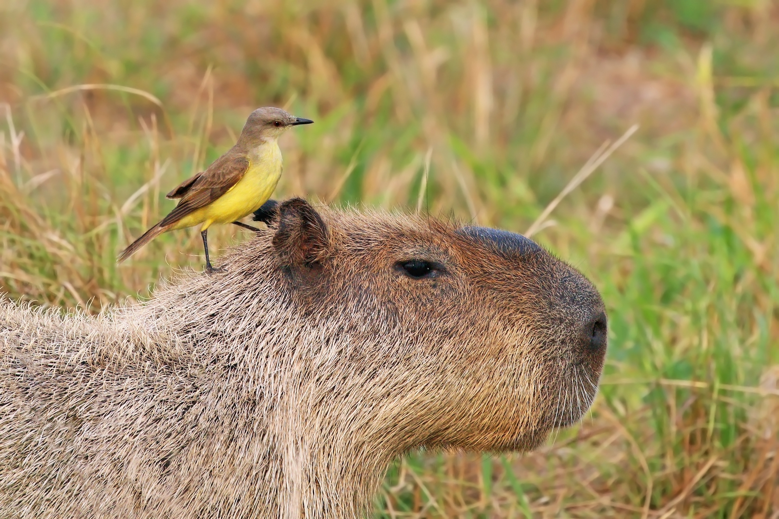 Cattle tyrant (Machetornis rixosa rixosa) on male capybara (Hydrochoeris hydrochaeris), the Pantanal, Brazil